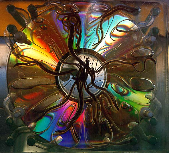 biosensor ecoSCOPE with glasseels migrating from the entrance in the middle to the 12 exits at the corners from where water from different sources enters, some polluted